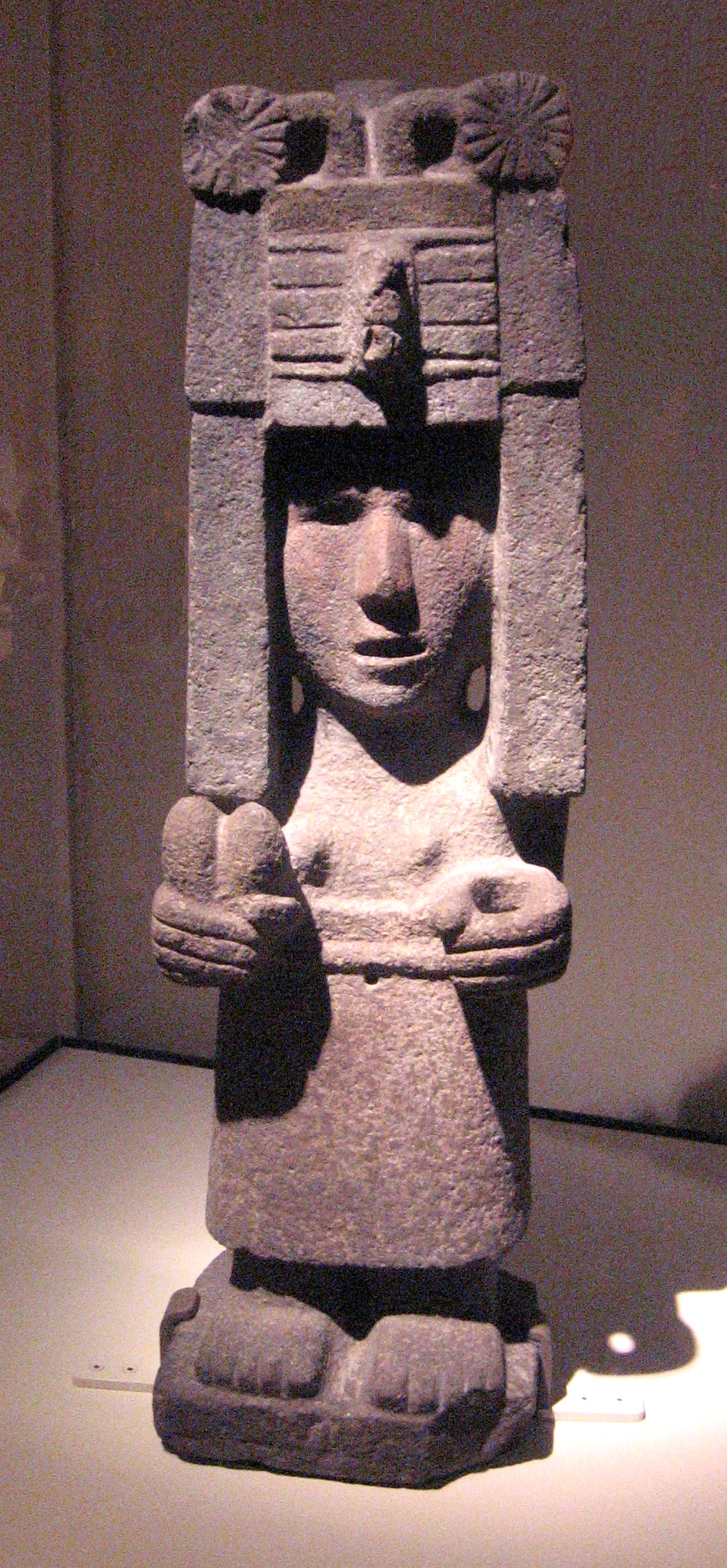 A stone sculpture of Chicomecoatl, Aztec maize goddess. She holds two maize ears in her right hand. Provisionally dated to 1440-1521 CE, this statuette is held by Mexico's Museo Nacional de Antropologia.